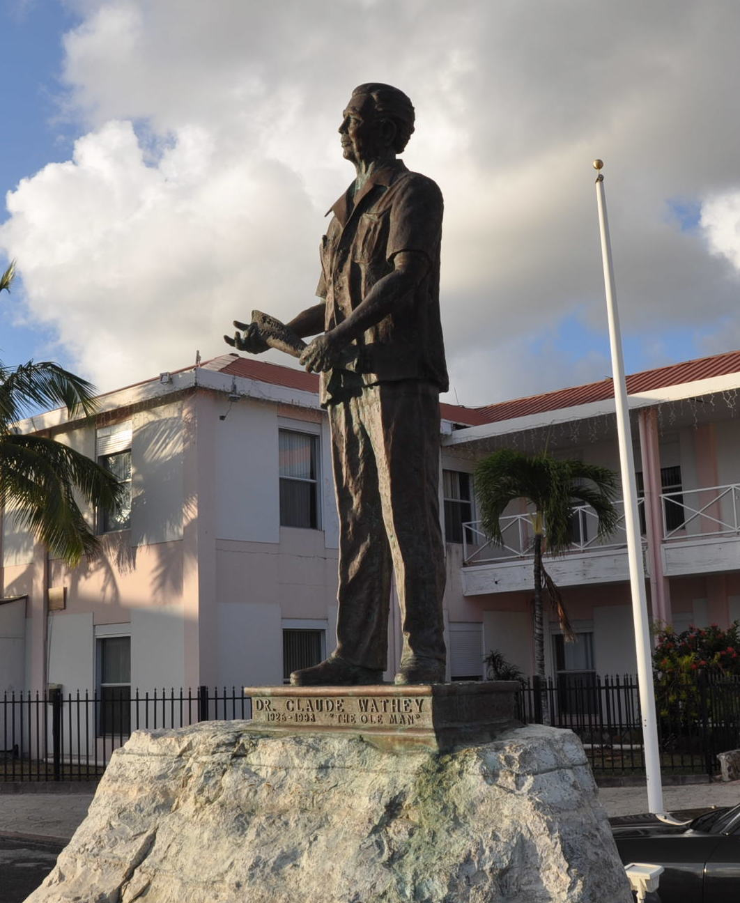 A picture of the statue of Dr. Claude Wathey in front of the government building in Philipsburg, St. Maarten